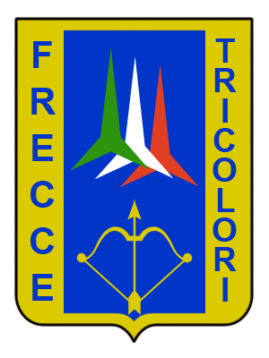 ensign of the 313º Gruppo (303rd Group) of the Aeronautica Militare (Italian Air Force).